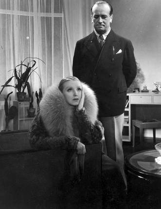 1933 film "Szpieg w masce": Hanka Ordonówna as Rita Holm (singer and intelligence agent), Bogusław Samborski ("Pedro" agency manager).